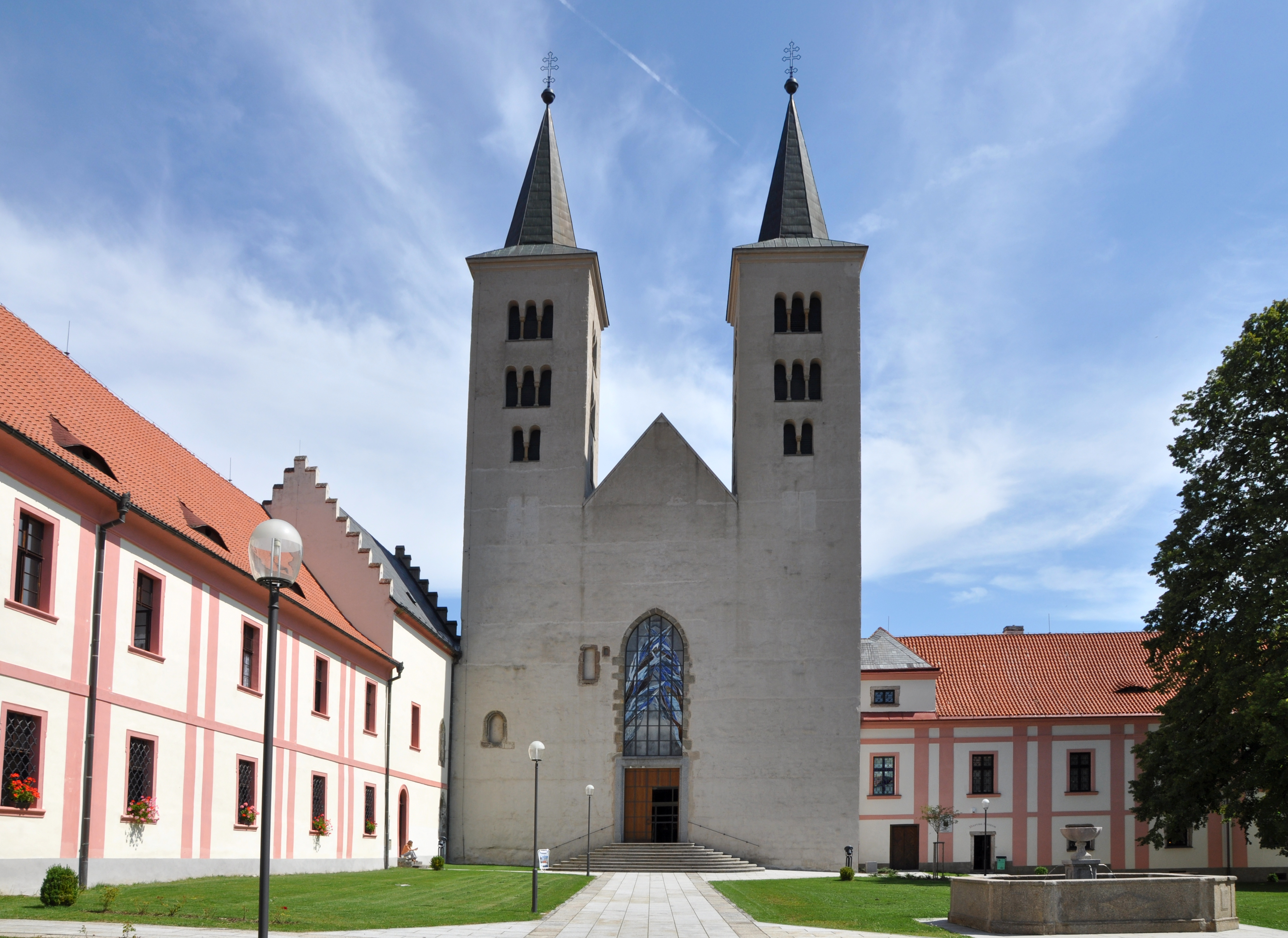 Milevsko monastery, early gothic Cathedrale Visiting of St.Marys